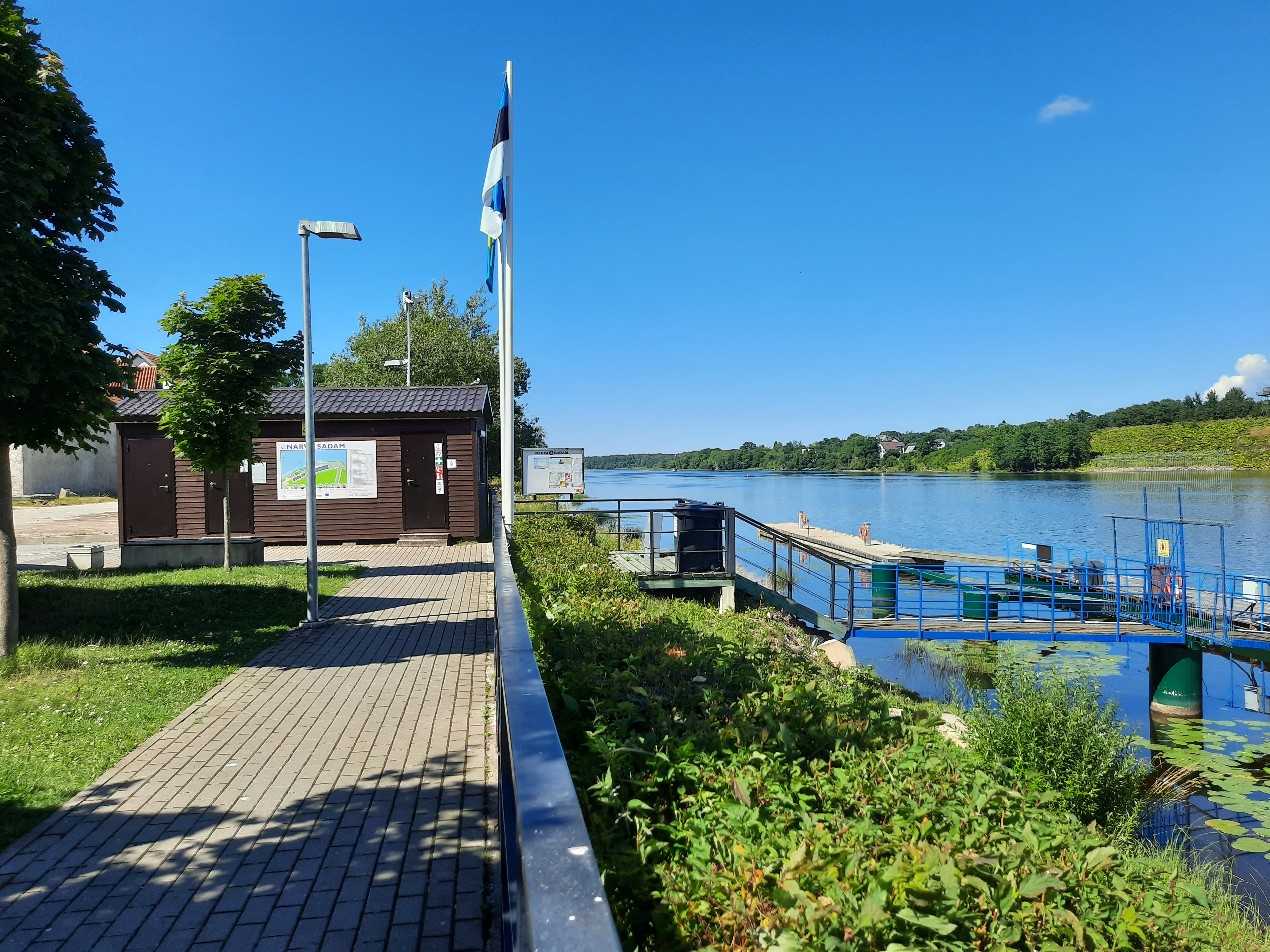 Narva Harbour